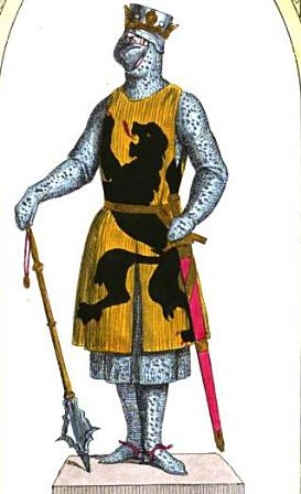 Baldwin V, Count of Hainaut